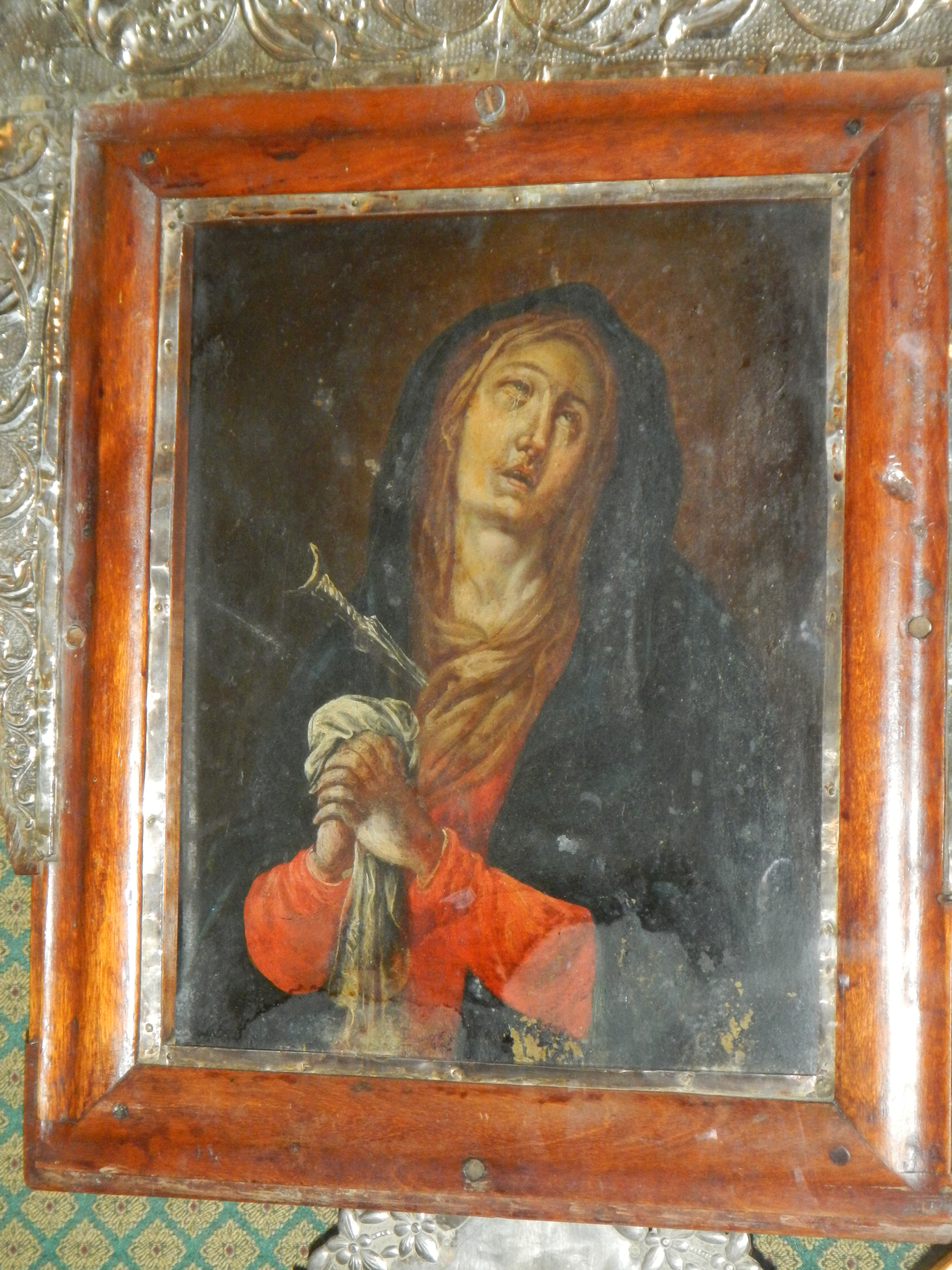 UploadWizard photos --- (general description of landmarks, heritage, culture, comprehensive, photography) of – Our Lady of Turumba[1] Nuestra Señora de los Dolores de Turumba ("Our Lady of Sorrows of Turumba") is the name for a specific statue of the Virgin Mary as Our Lady of Sorrows,[2] [3] enshrined in Diocesan Shrine of Nuestra Señora de los Dolores de Turumba - Saint Peter of Alcantara Parish Church of Pakil in Pakil, Laguna, where the image is enshrined. (belongs to the Roman Catholic Diocese of San Pablo [4] [5] Episcopal District IV Diocesan Shrine of Nuestra Señora de los Dolores de Turumba, Pakil, Laguna Vicariate of Saint James the Apostle - [6] Vicar Forane: Father Joseph B. dela Rosa Saint Peter of Alcantara Parish Address: Poblacion, Pakil 4017 Laguna, Philippine Feast day: October 19 Parish Priest: Father Alberto I. San Jose, Jr.) - Pakil, Laguna, (a fifth class urban municipality of Laguna, Philippines. According to the latest census, it has a population of 20,822. Its land area consists of two non-contiguous parts, separated by Laguna de Bay[7]. [8] Geographical location: Laguna, [9] Region 4, Philippines, Asia Geographical coordinates: 14° 22' 56" North, 121° 28' 46" East).[10]